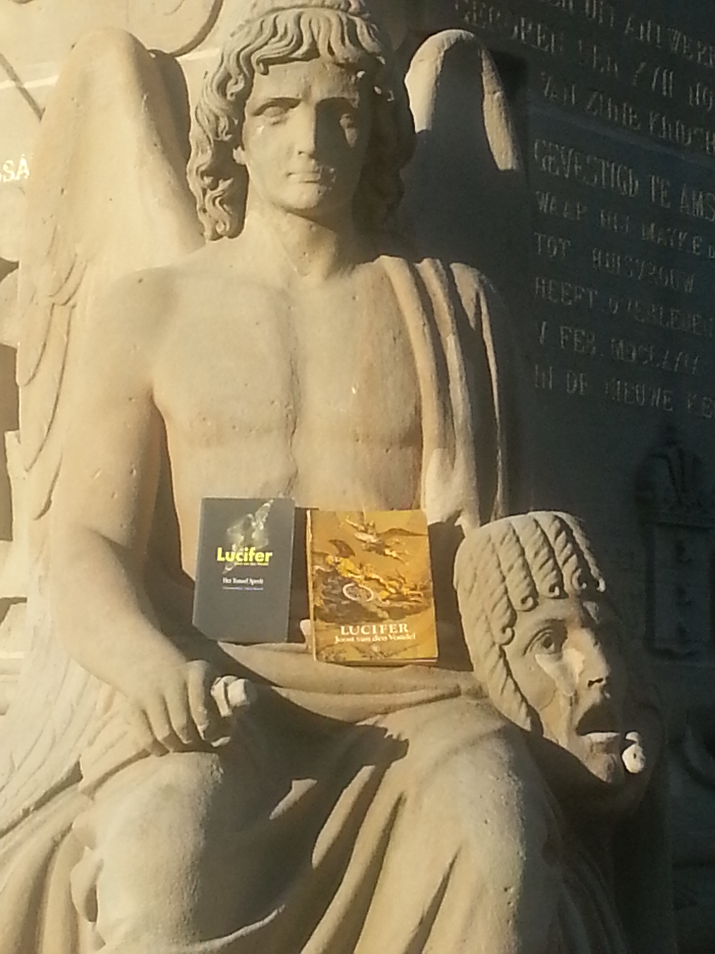 Angel with lucifer rfitions at vondelpark